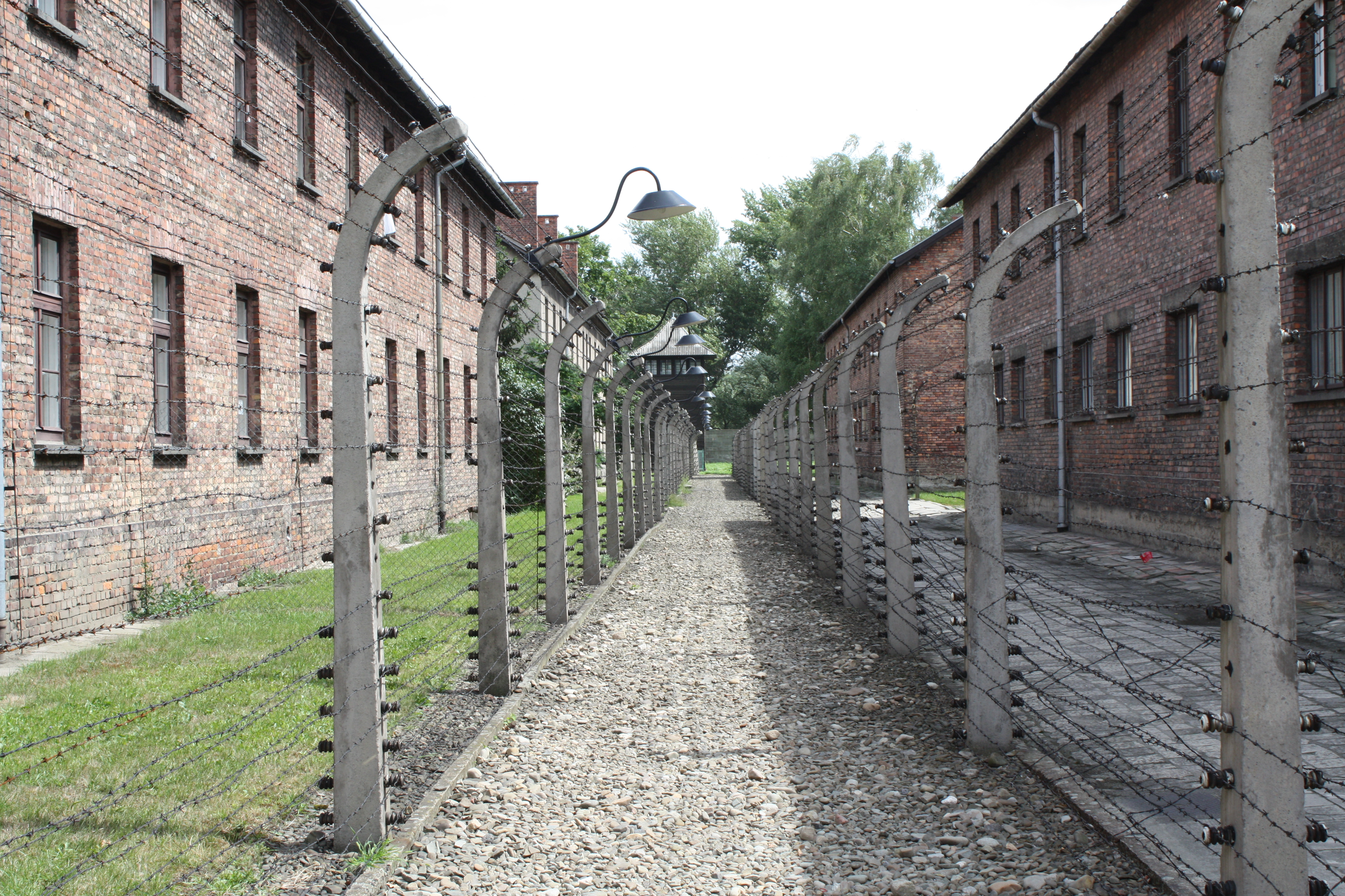 This picture is taken from the opening through the barbed wire fence on the way to the gallow where the former camp commander, Rudolf Höss, was hanged.